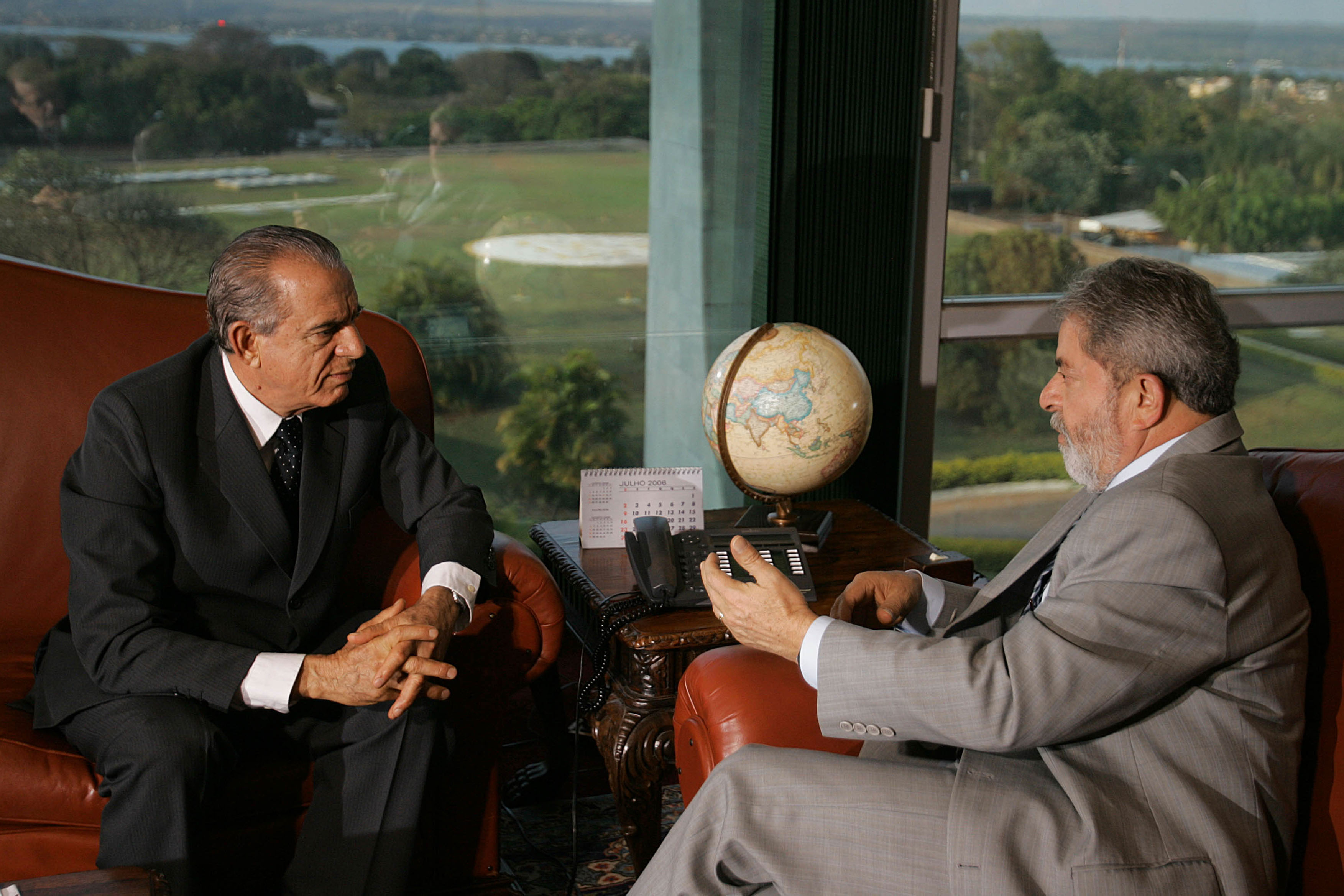 Iris Rezende Machado e Luiz Inácio Lula da Silva, mayor of Goiânia and president of Brazil.